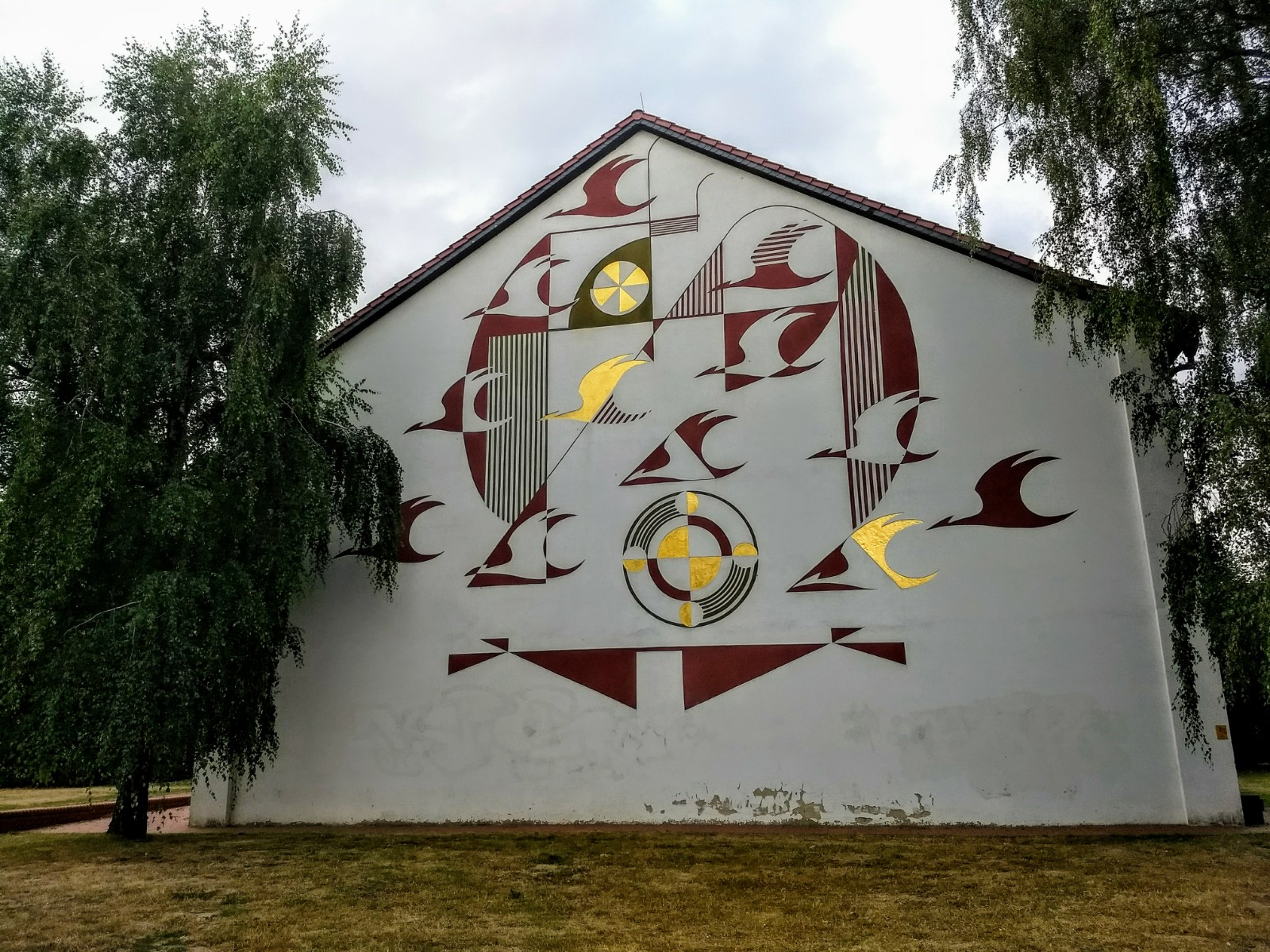 Wall painting on Kranichgymnasium in Salzgitter-Lebenstedt